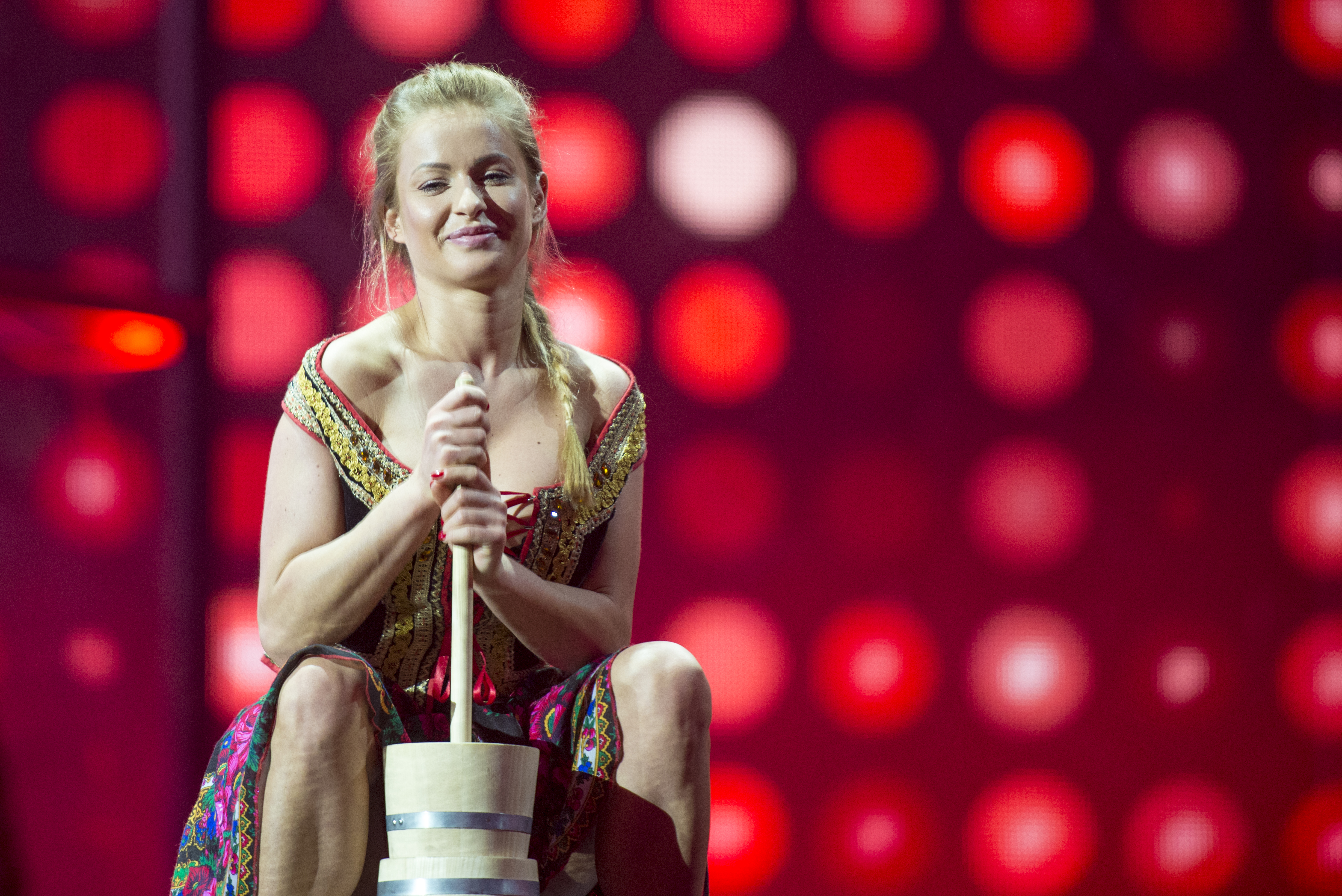 Donatan and Cleo representing Poland with the song "My Słowianie" during the first dress rehearsal of the final of the Eurovision Song Contest 2014 Copenhagen. (Help translate this text)